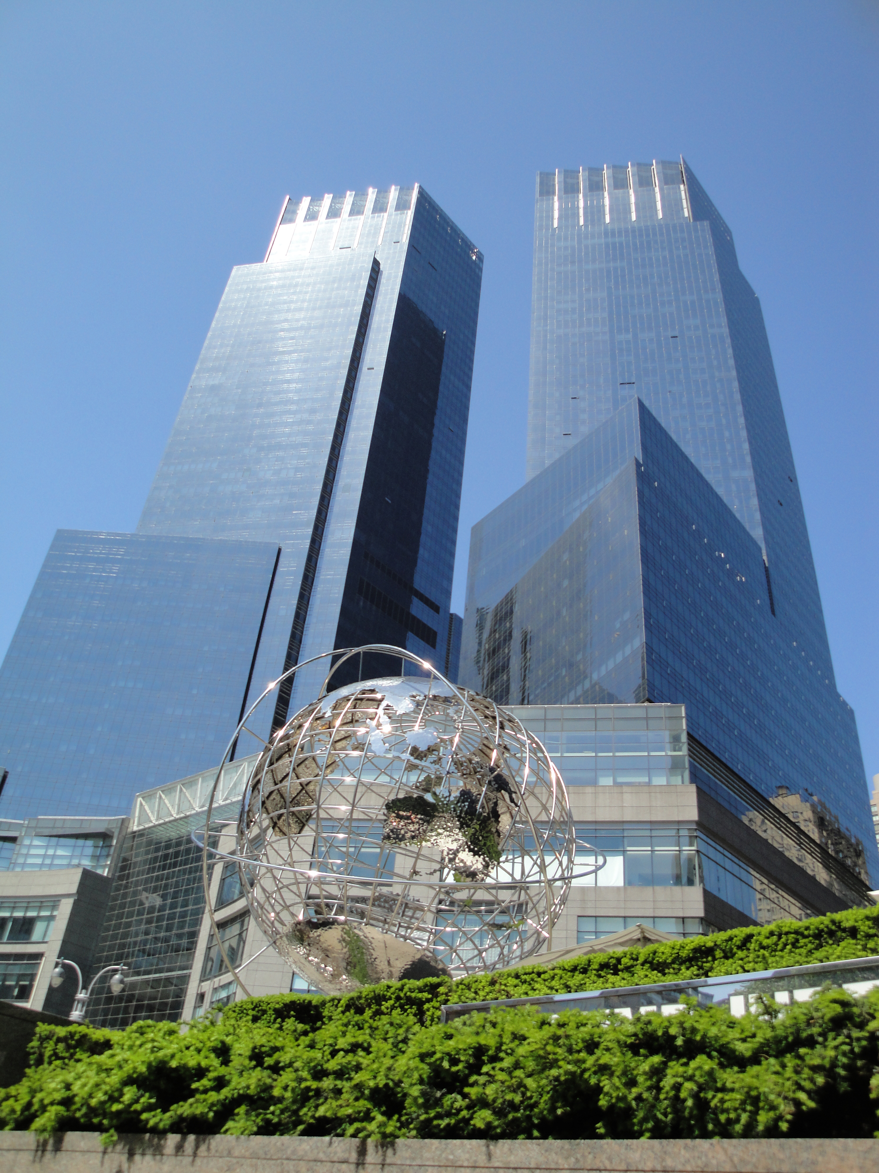 The Time Warner Center as viewed from Central Park West. The globe from the Trump International Hotel and Tower can also be seen.